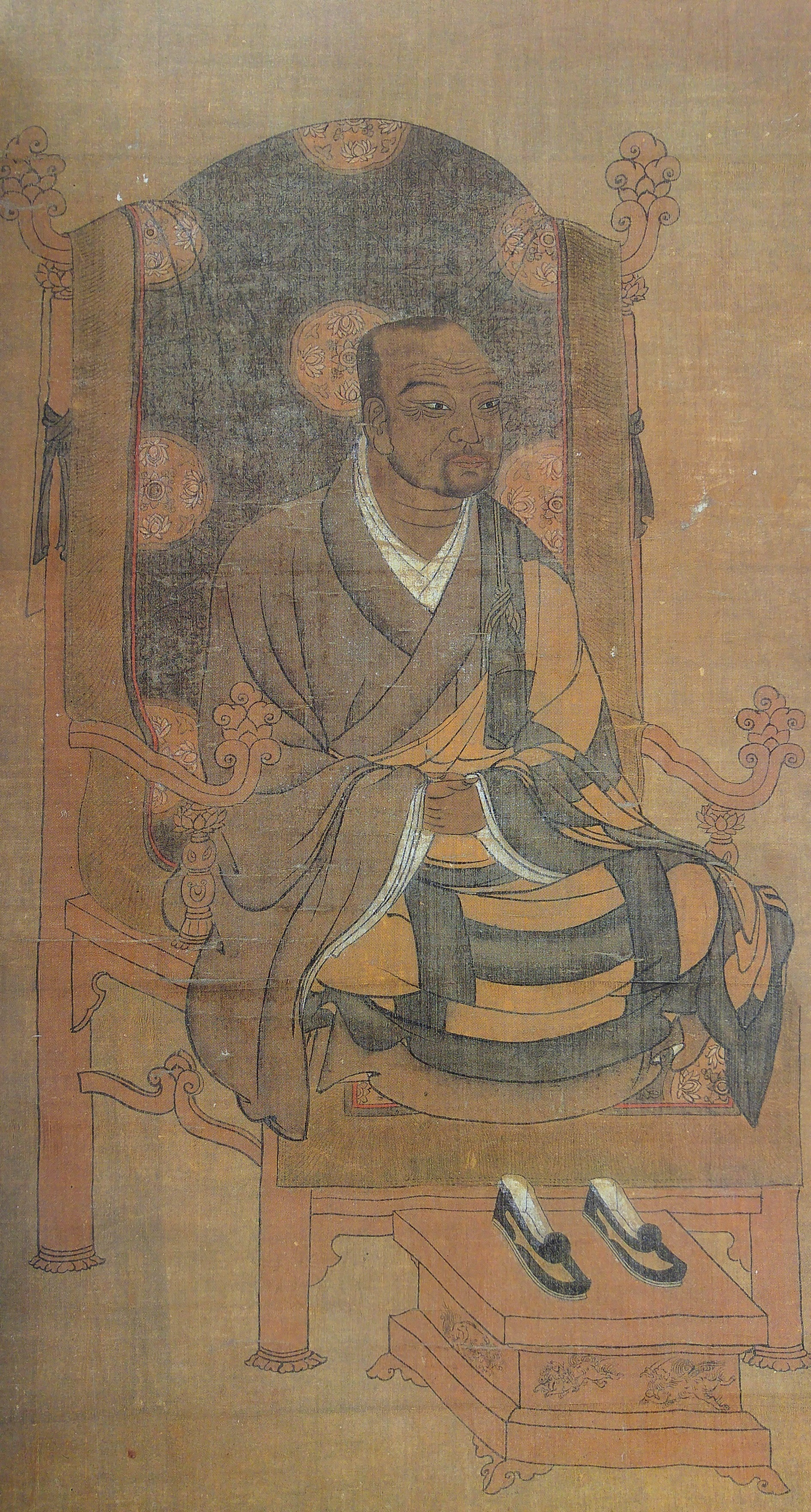 Portrait of Wonhyo